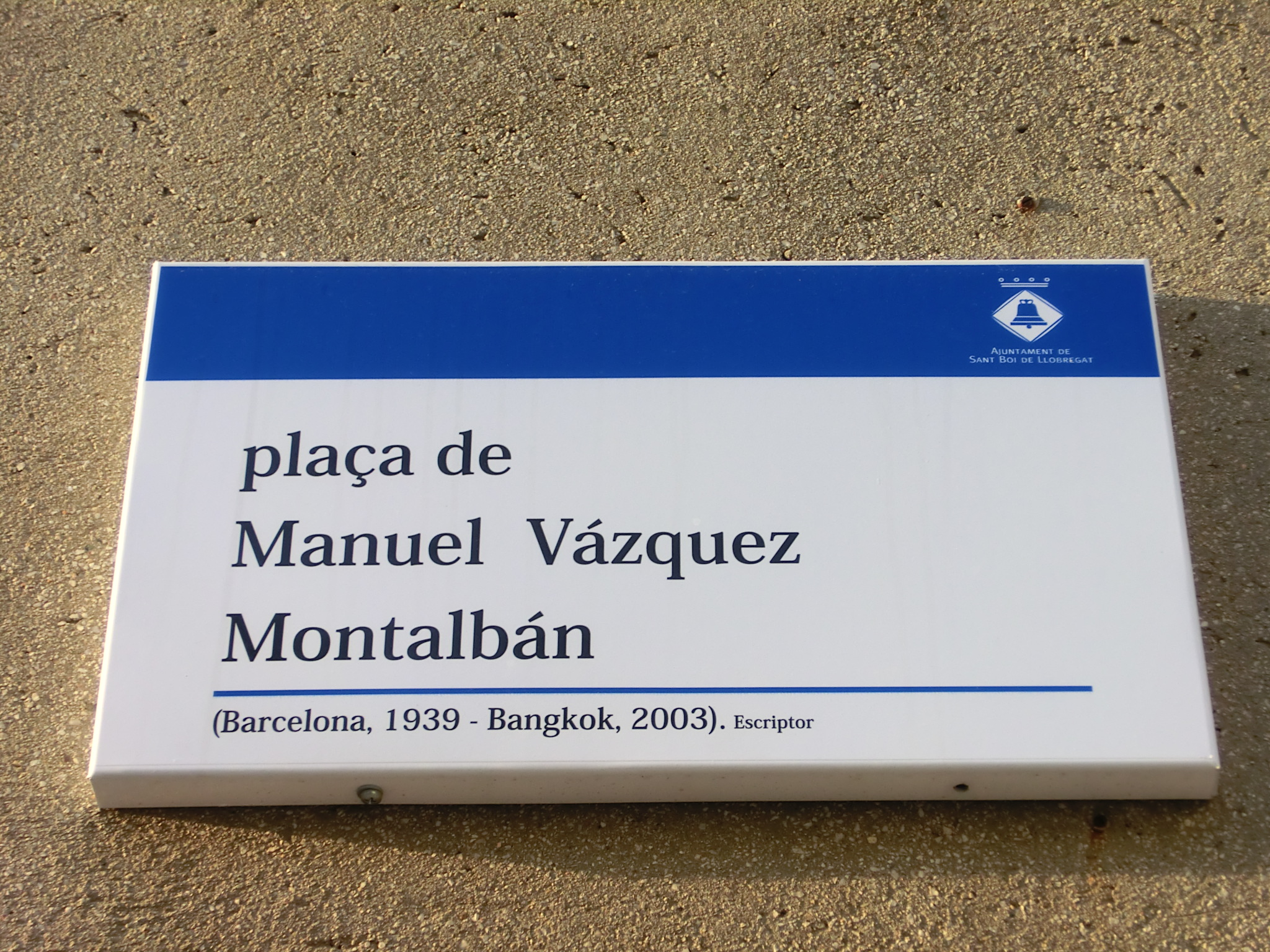 Manuel Vázquez Montalbán square in Sant Boi de Llobregat (Barcelona, Spain)